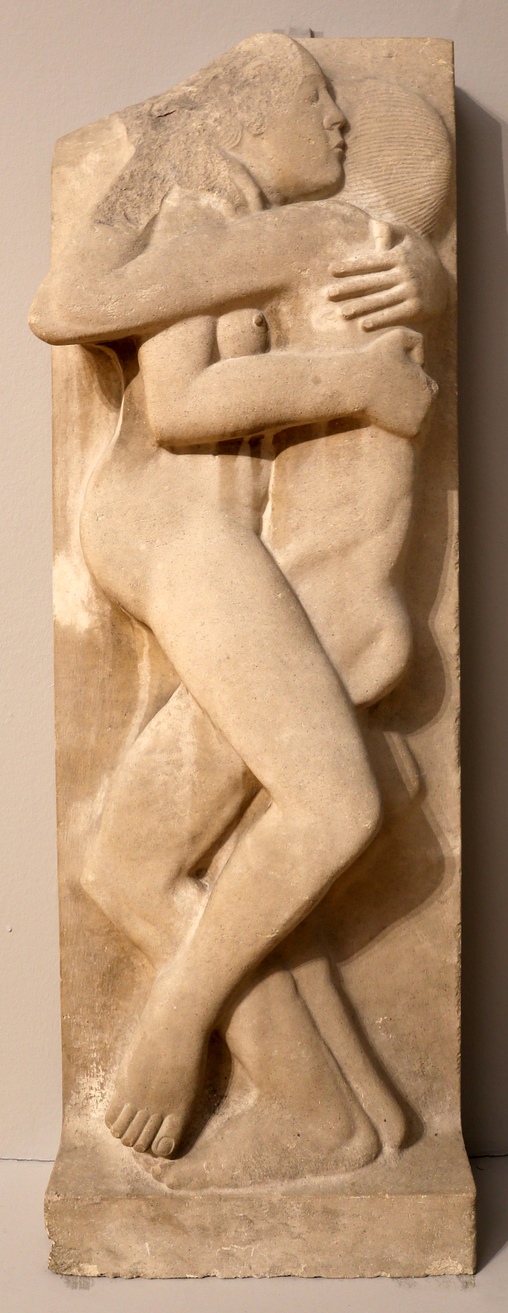 Sculptures in Tate Britain